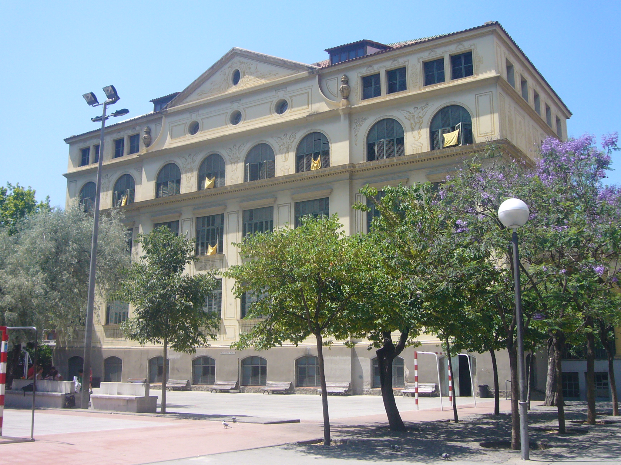 Grup Escolar Ramon Llull (Barcelona), seen from Consell de Cent street